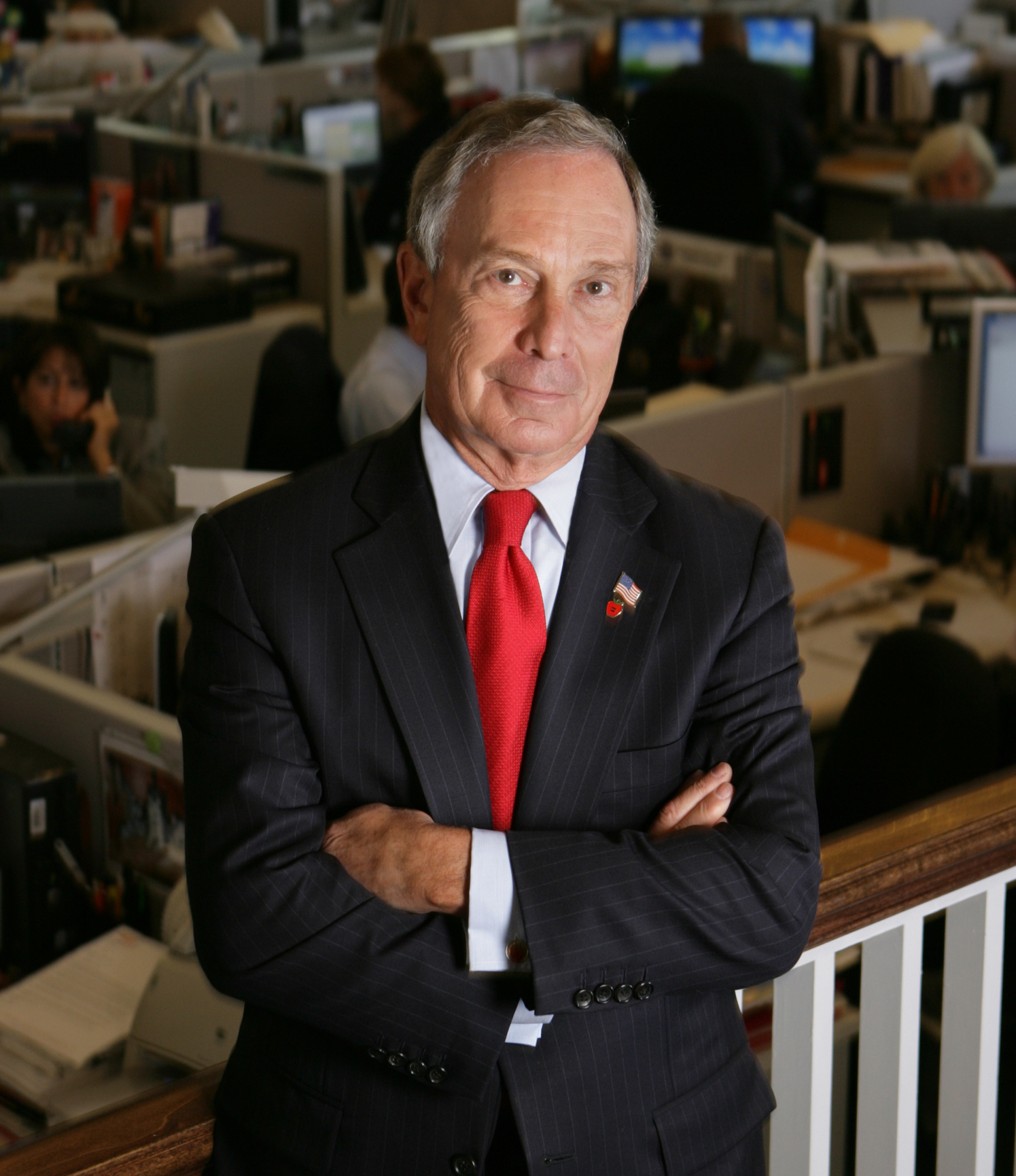 New York Mayor, Michael R. Bloomberg.